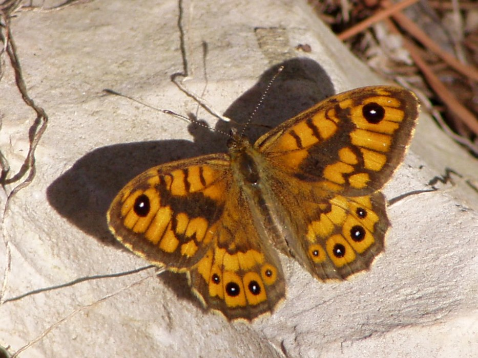 Wall Brown. Portimão, Portugal.